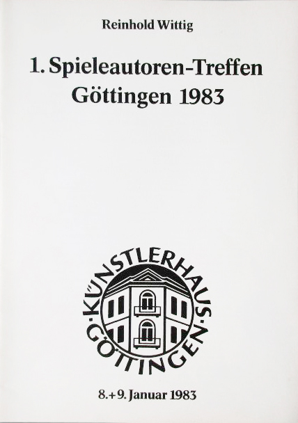 Cover of the brochure for the 1st Game Designers Convention in Göttingen, Germany, 1983.